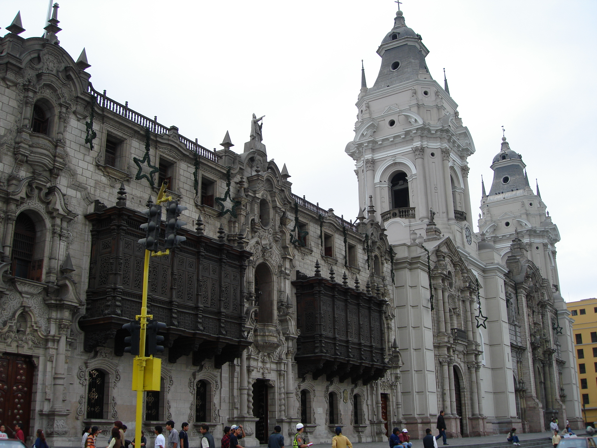 Description: Diocese and Cathedral of Lima City: Lima Country: Peru Photographer: © Victoria Alexandra González Olaechea Yrigoyen Shot date : December, 6th, 2006